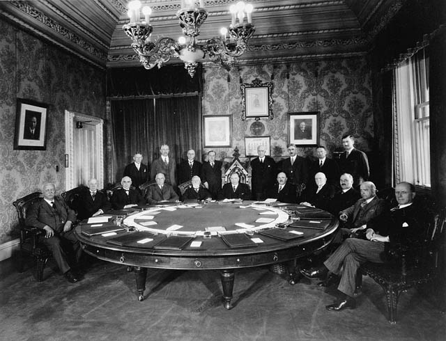 A meeting of the Cabinet Ministers of William Lyon Mackenzie King in the Privy Council Chamber, East Block, 1930. (Seated, L-R): Peter John Veniot, John Campbell Elliott, Pierre-Joseph-Arthur Cardin, Charles Stewart, Raoul Dandurand, William Lyon Mackenzie King, Ernest Lapointe, William Richard Motherwell, Charles Avery Dunning, Lucien Cannon, William Daum Euler. (Standing, L-R): William Frederic Kay, Thomas Alexander Crerar, James Layton Ralston, Fernand Rinfret, James Malcolm, Peter Heenan, Cyrus Macmillan, Ian Mackenzie